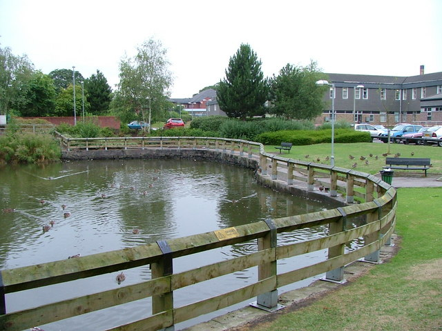 Pool at Macclesfield General Hospital. complete with resident ducks.